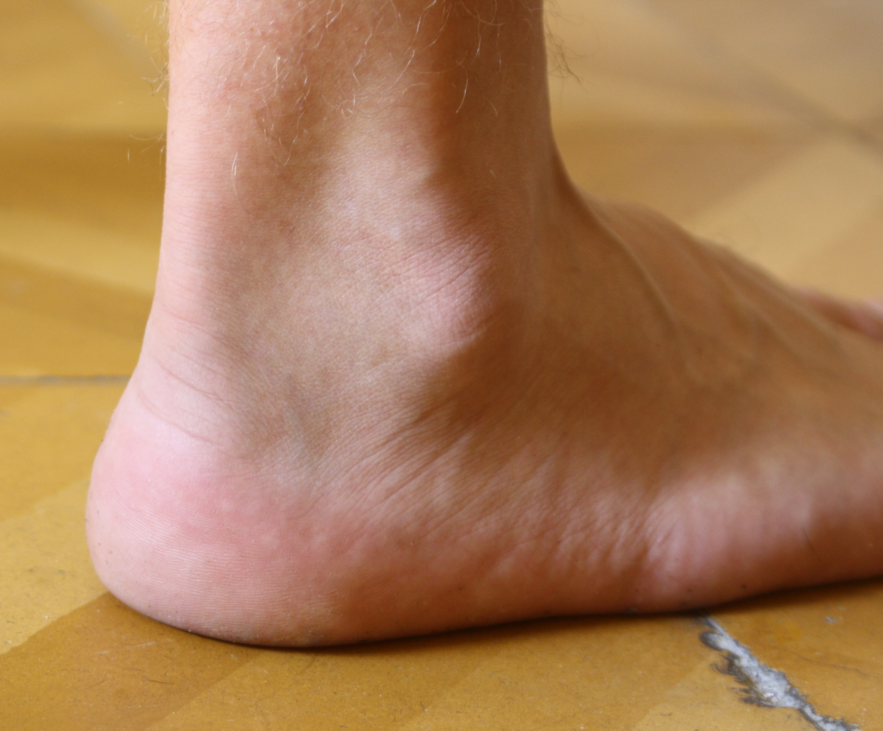 Ankle